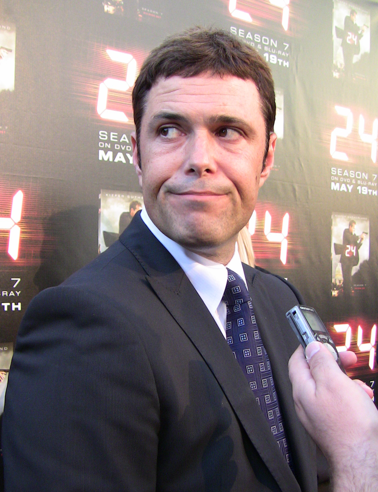 Actor Carlos Bernard at TV series 24's season 7 finale screening at Wadsworth Theatre, Los Angeles, California.